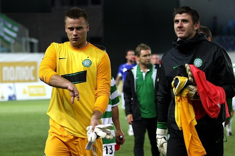 Artur Boruc (born 20 February 1980 in Siedlce) is a Polish footballer.